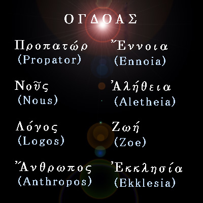 created by Uploader(Maris stella)